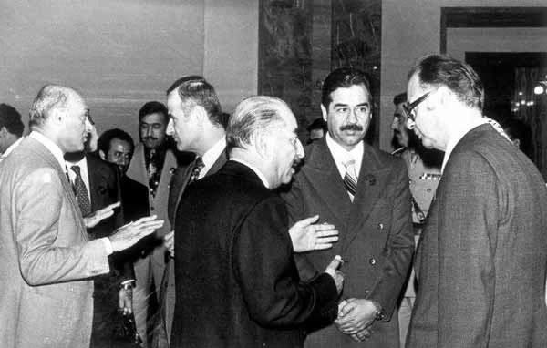 President Hafez al-Asad of Syria (centre, background) at an Arab Summit in Baghdad in November 1978. Standing near him, having a separate conversation, are Iraqi President Ahmad Hasan al-Bakr (centre, foreground), beside him Saddam Hussein, the Iraqi Vice-President, Lebanese Prime Minister Saleem al-Hoss (right).